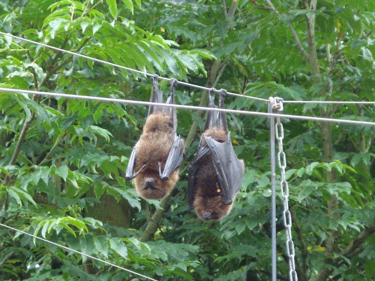 Rodrigues Fruit Bats at Paignton Zoo.